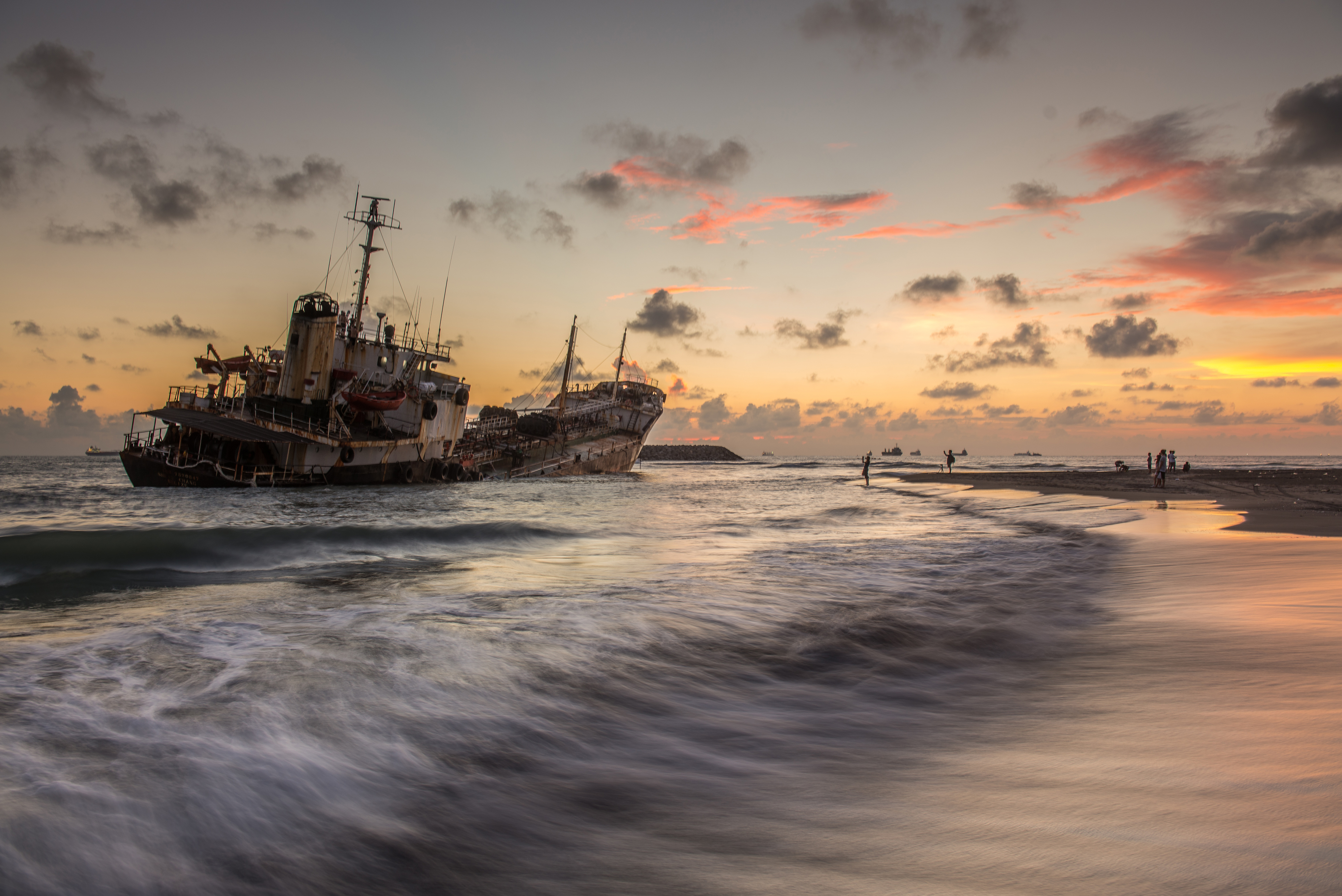 THE GROUNDING FISHING VESSEL UNDER SUNSET IN TAIWAN CIJIN BEACH